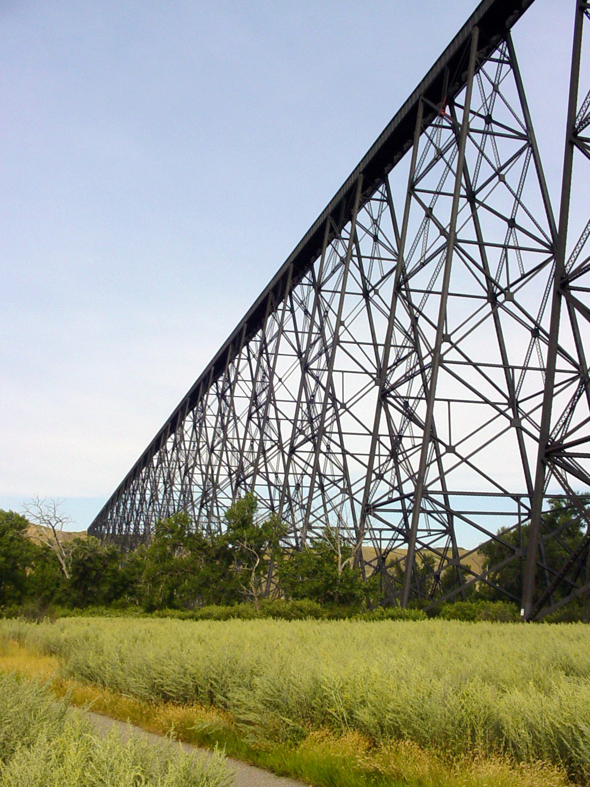 Lethbridge Railroad Bridge, Alberta, Canada